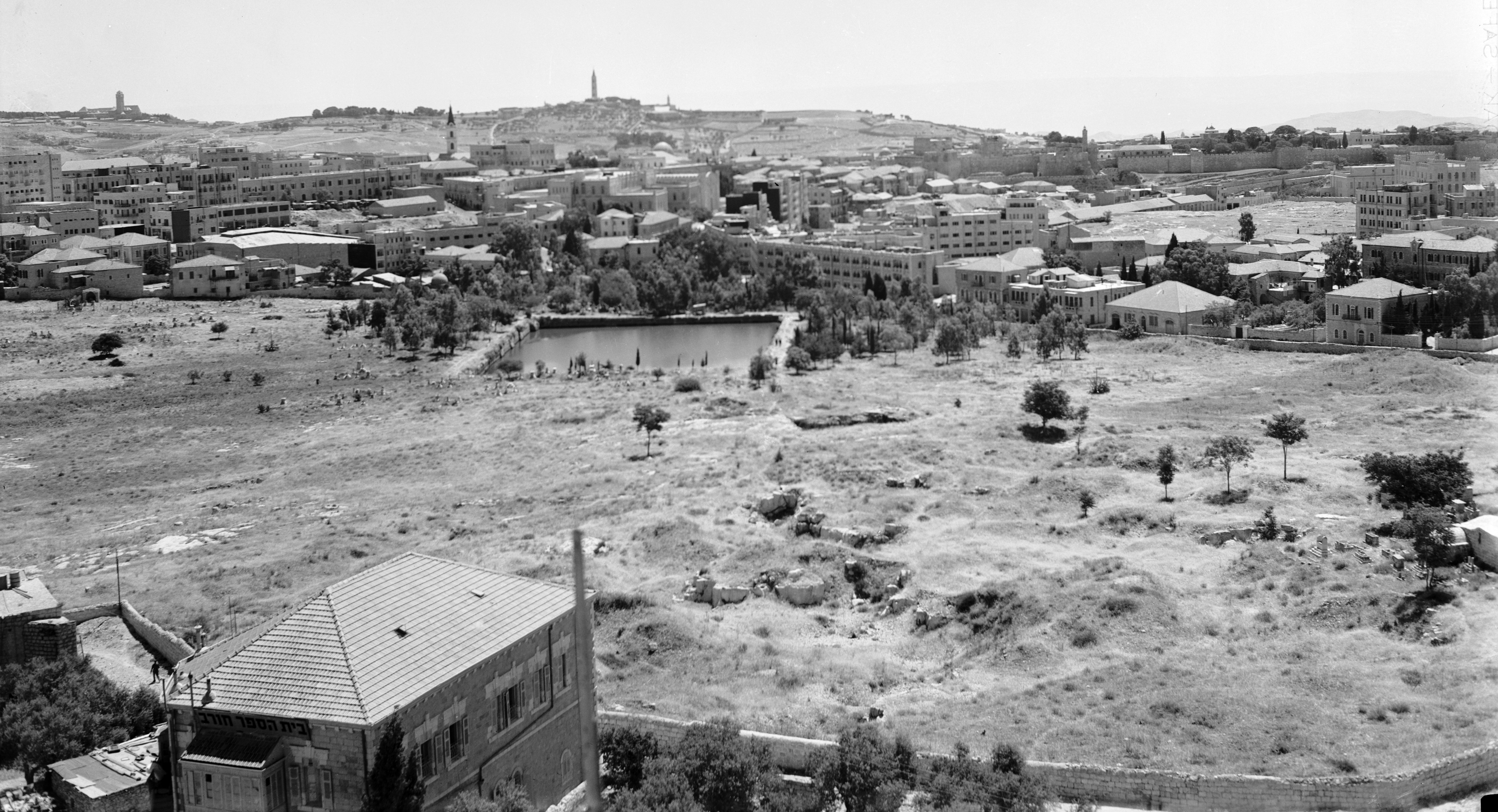 Church of the Holy Sepulchre and surroundings. Upper Pool of Gihon